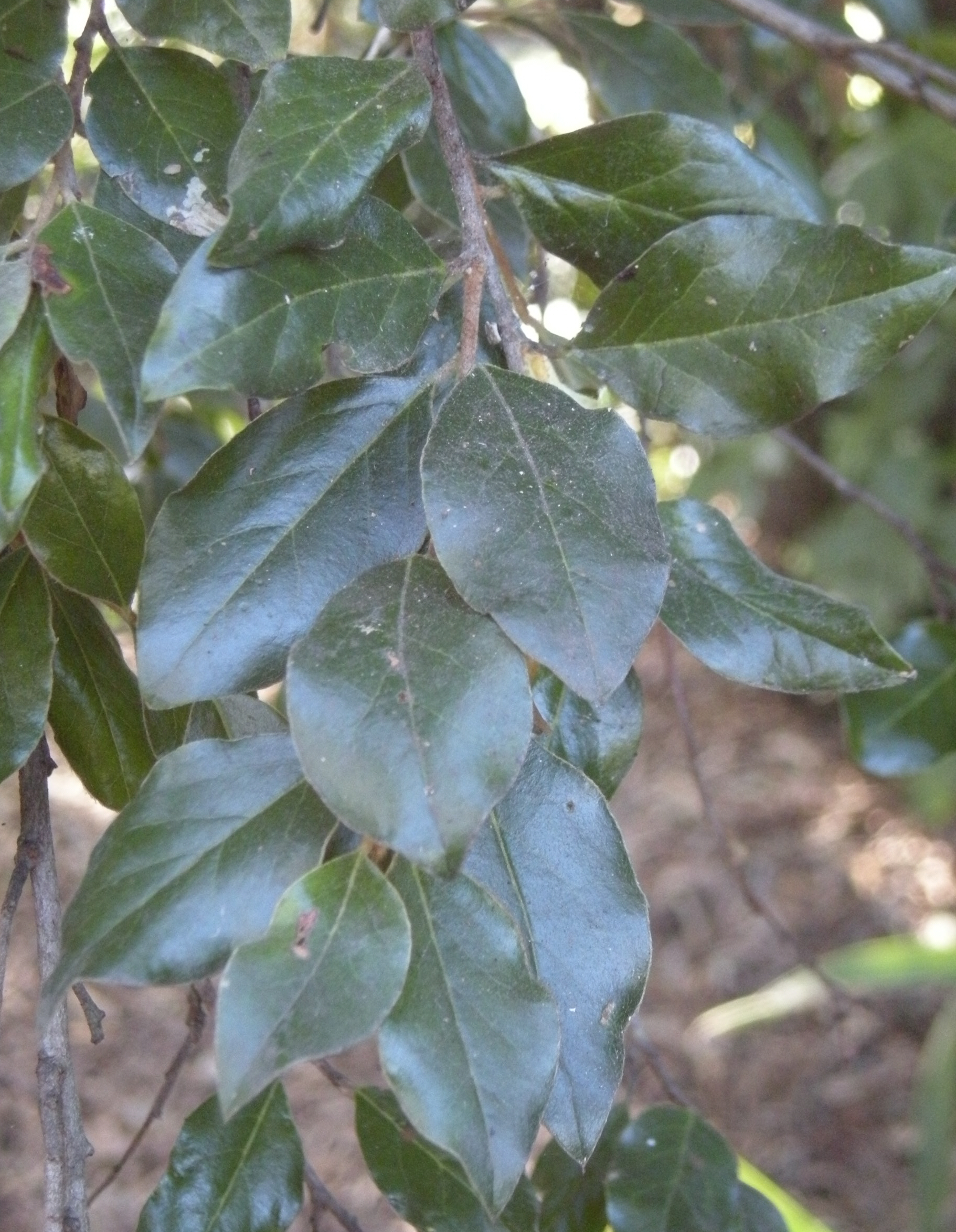 Petalostigma pubescens foliage, Central Queensland.